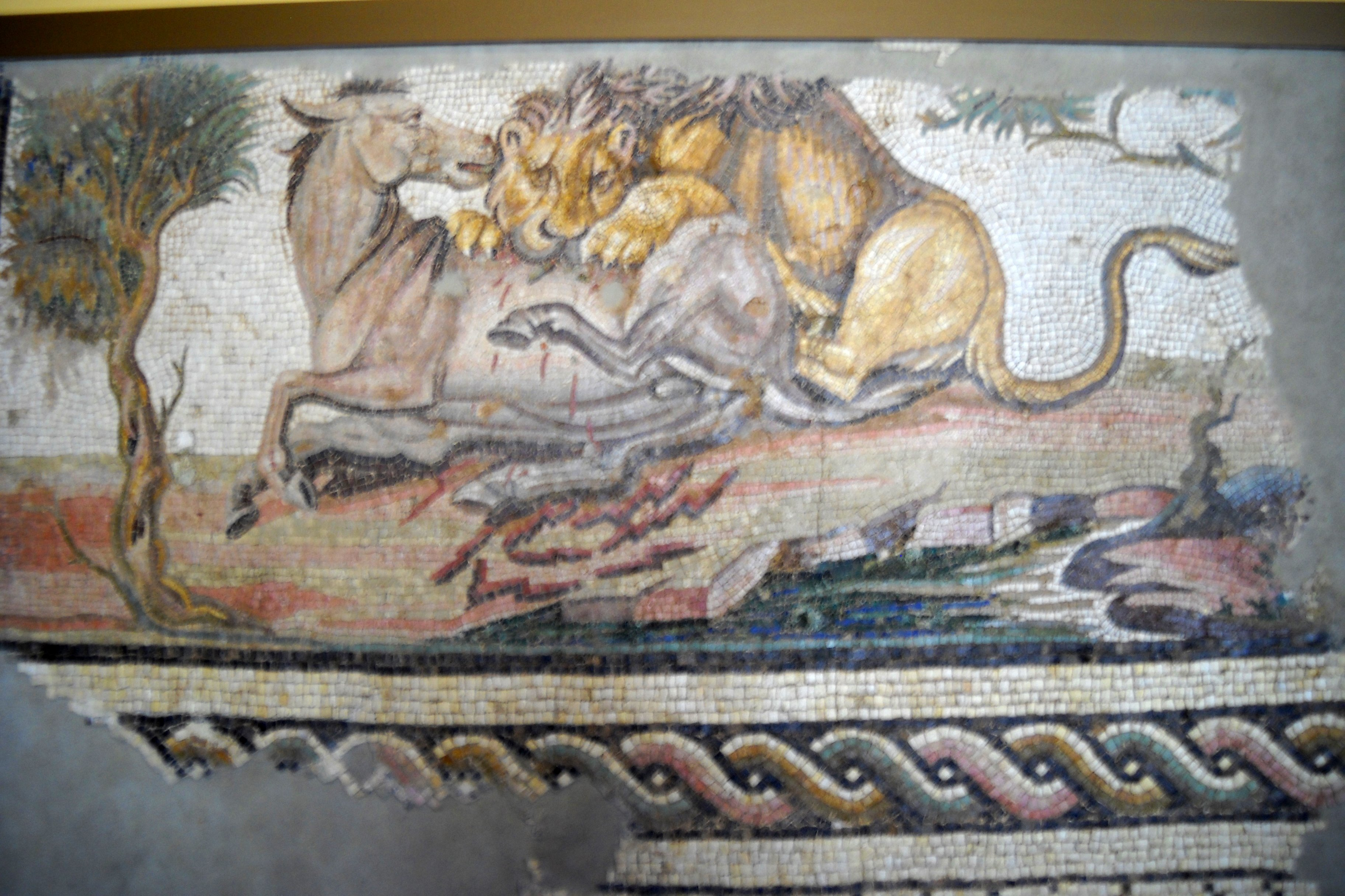 Floor Mosaic with a Lion Attacking an Onager (Roman, c. AD 150)